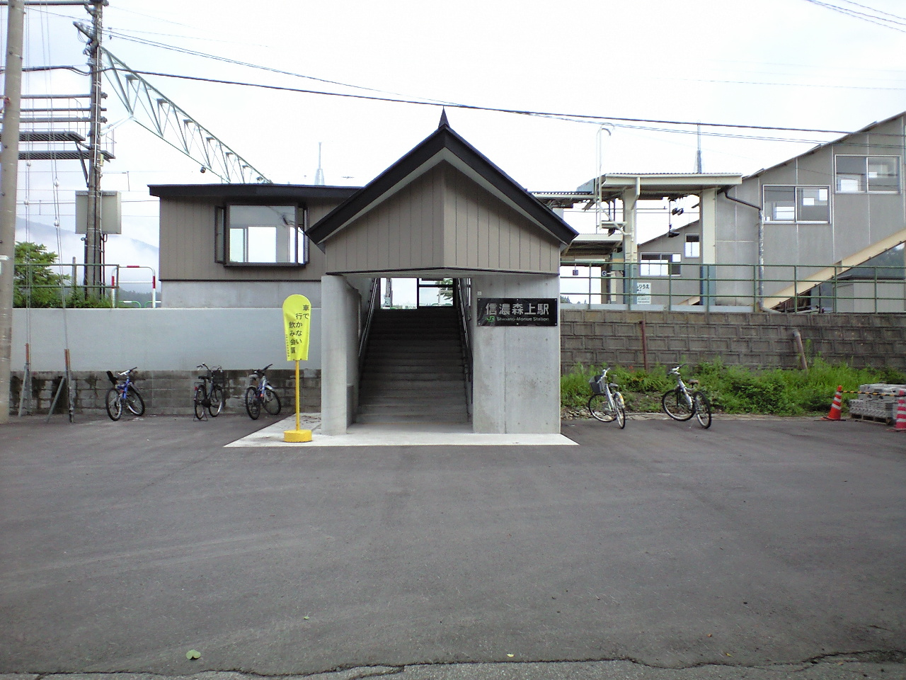 Shinano-Moriue Station in Hakuba, Nagano Prefecture, Japan